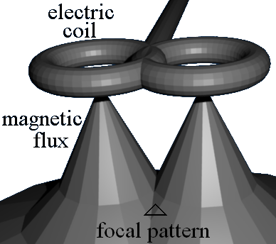 Transcranial Magnetic Stimulation - focal field pattern Image:GNUFDLG.png